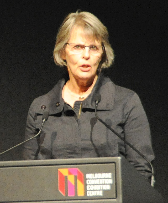 Lyn Allison speaking at 2010 Global Atheist Convention